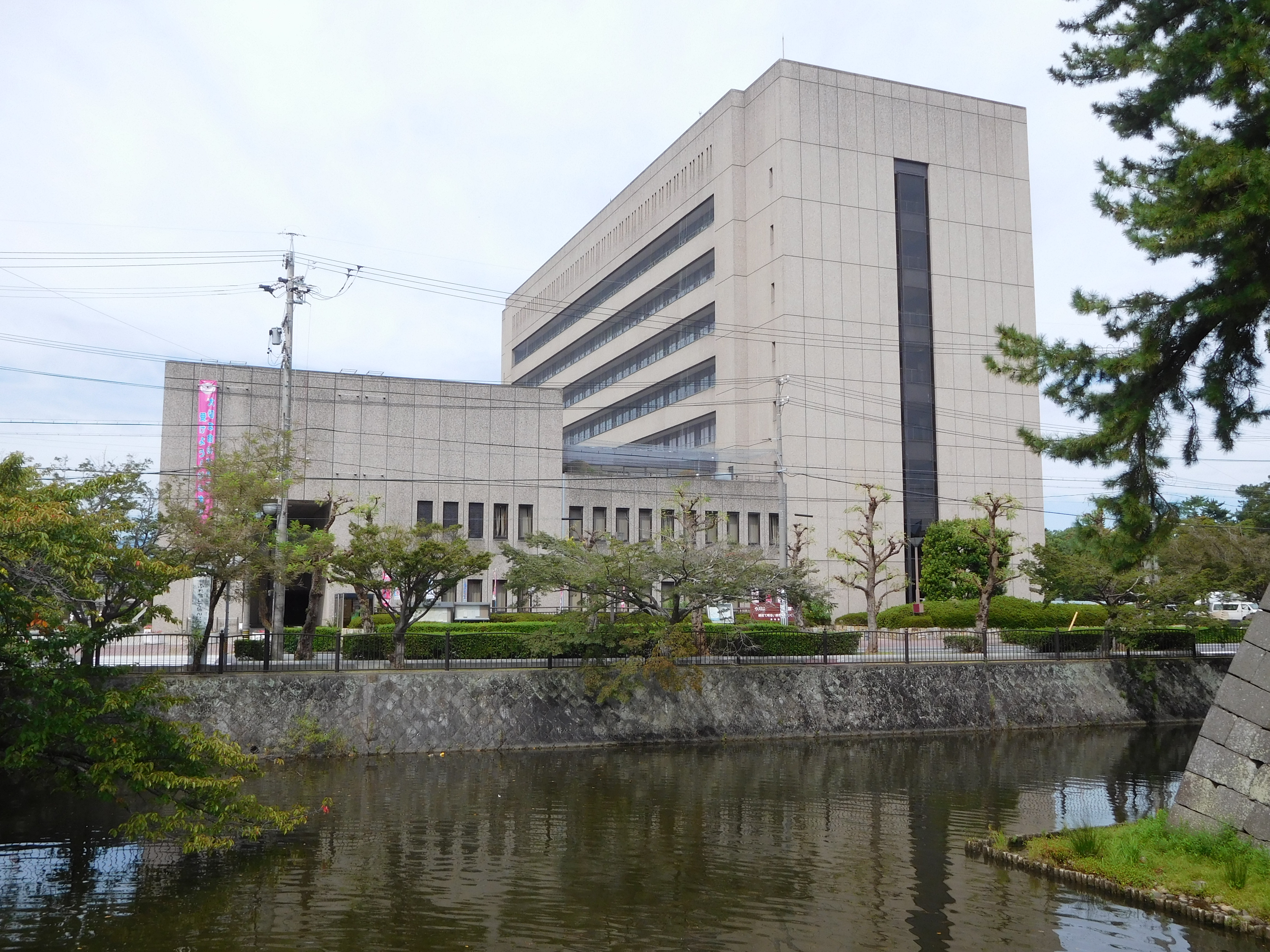 This is Tsu city hall in Tsu, Mie, Japan. This photo was taken from Tsu castle.